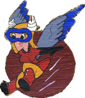 US Army Air Forces Women Air Ferrying Service Women Air Service Pilots emblem, 1943